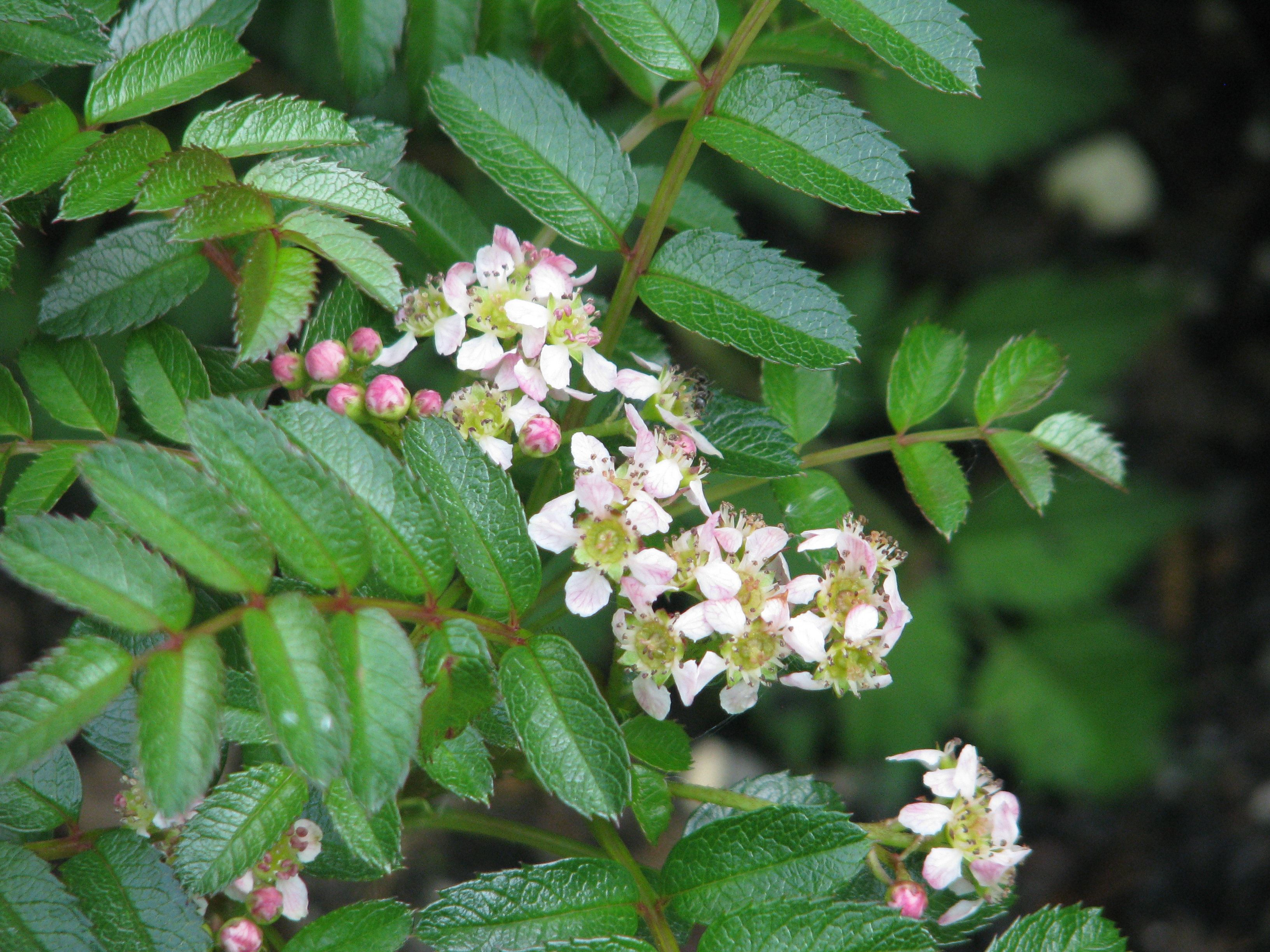 Sorbus poteriifolia, cultivated